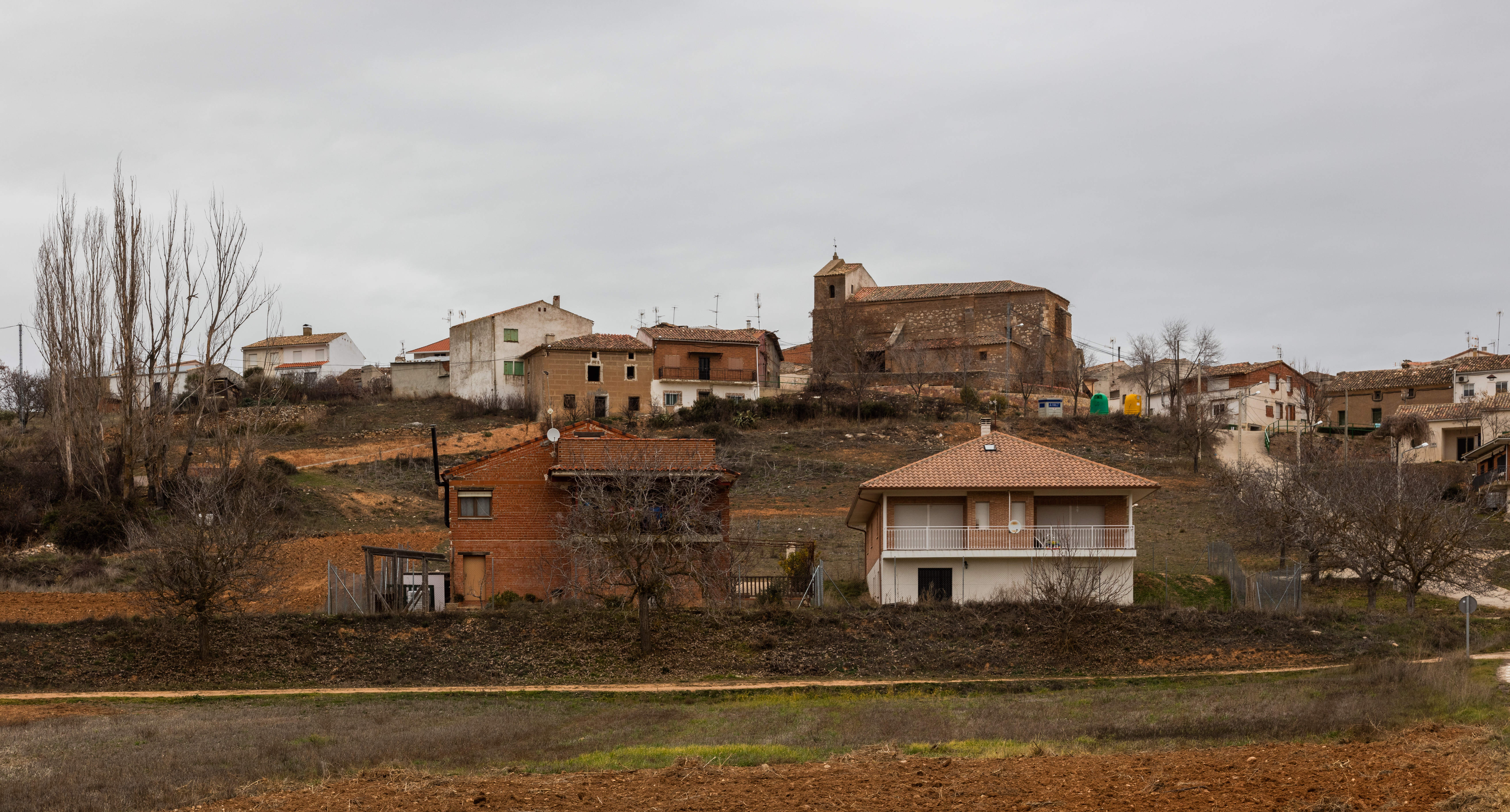 Cendejas de Padastro, Guadalajara, Spain